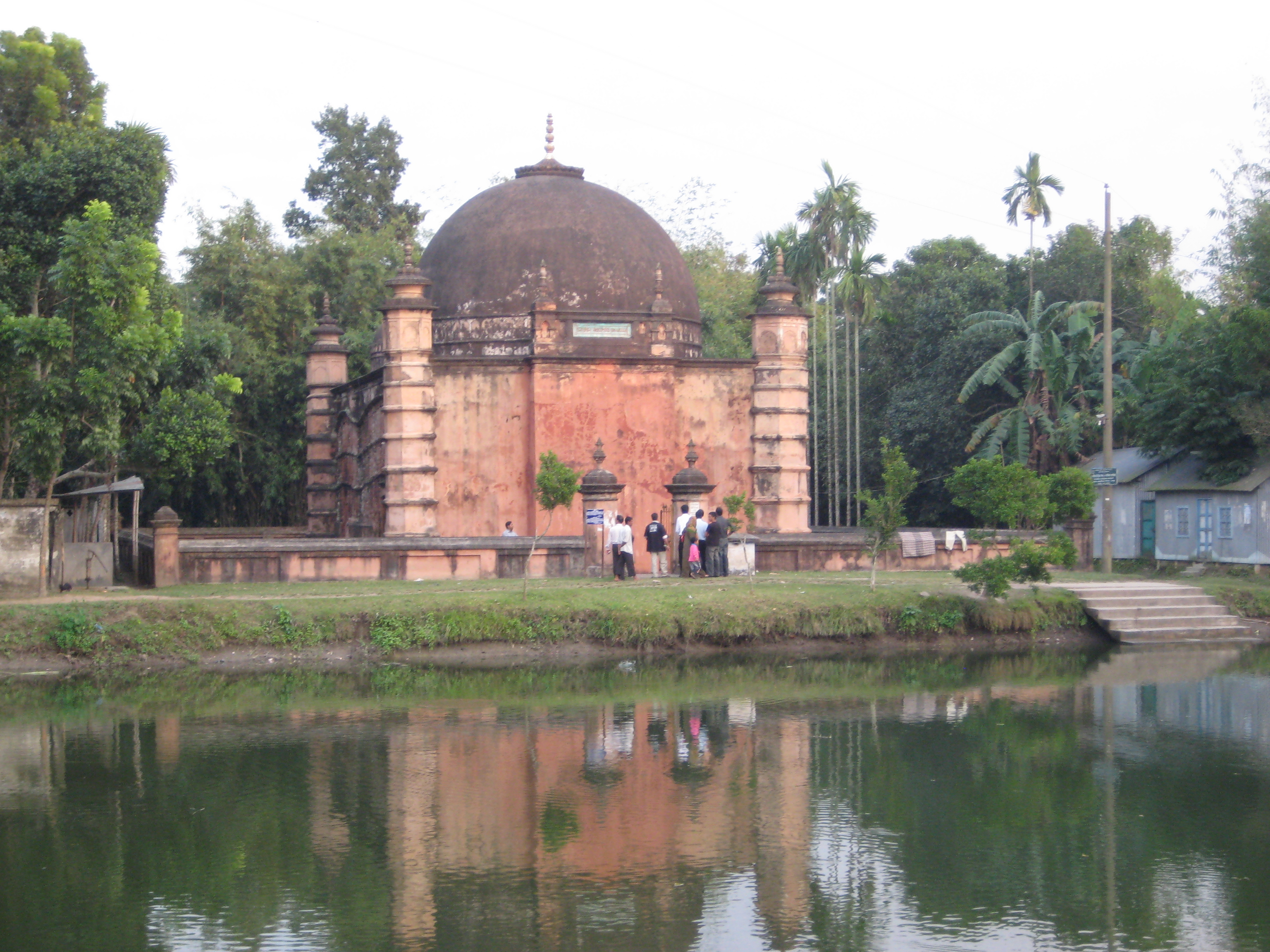 The 400-year-old Atia Jam-e Mosque is in the Delduar upazila of Tangail. According to officials of Department of Archaeology and local historians, the Land lord (Zamindar) of Atia, Syed Khan Panni, had the mosque built on the bank of Louhaganj River by the best masons and artisans of the time (1609). Panni received Atia Pargana(District) from the Mughal Emperor Jahangir as a gift in the beginning of the 17th century.